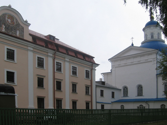 Church of the Assumption in Zhyrovichy